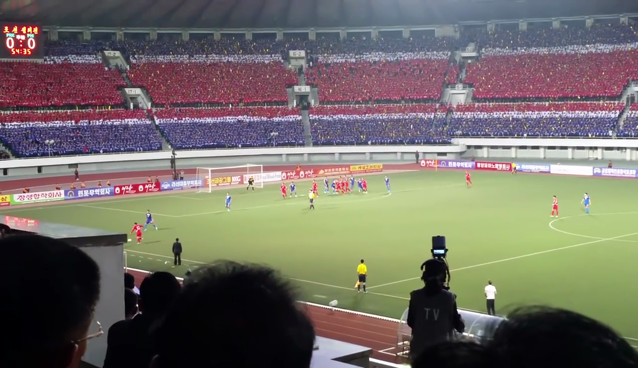 North Korea v Philippines, 8 October 2015 - FIFA World Cup 2018 qualifiers (AFC Second Round)